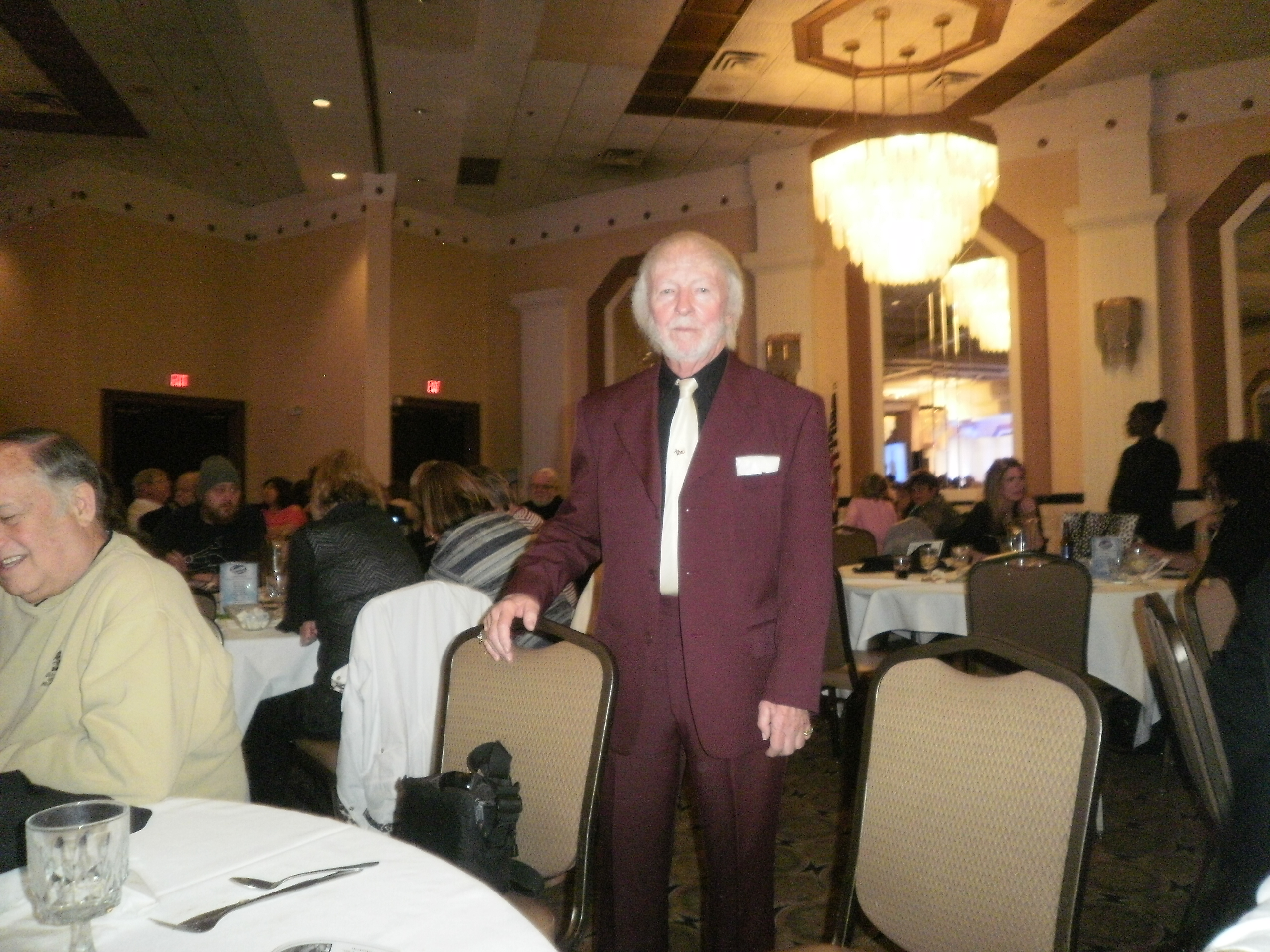 Senior American Idol Competition Orland Township, May 4th, 2017 @ Giorgio's Banquet Hall in Orland Park Illiois